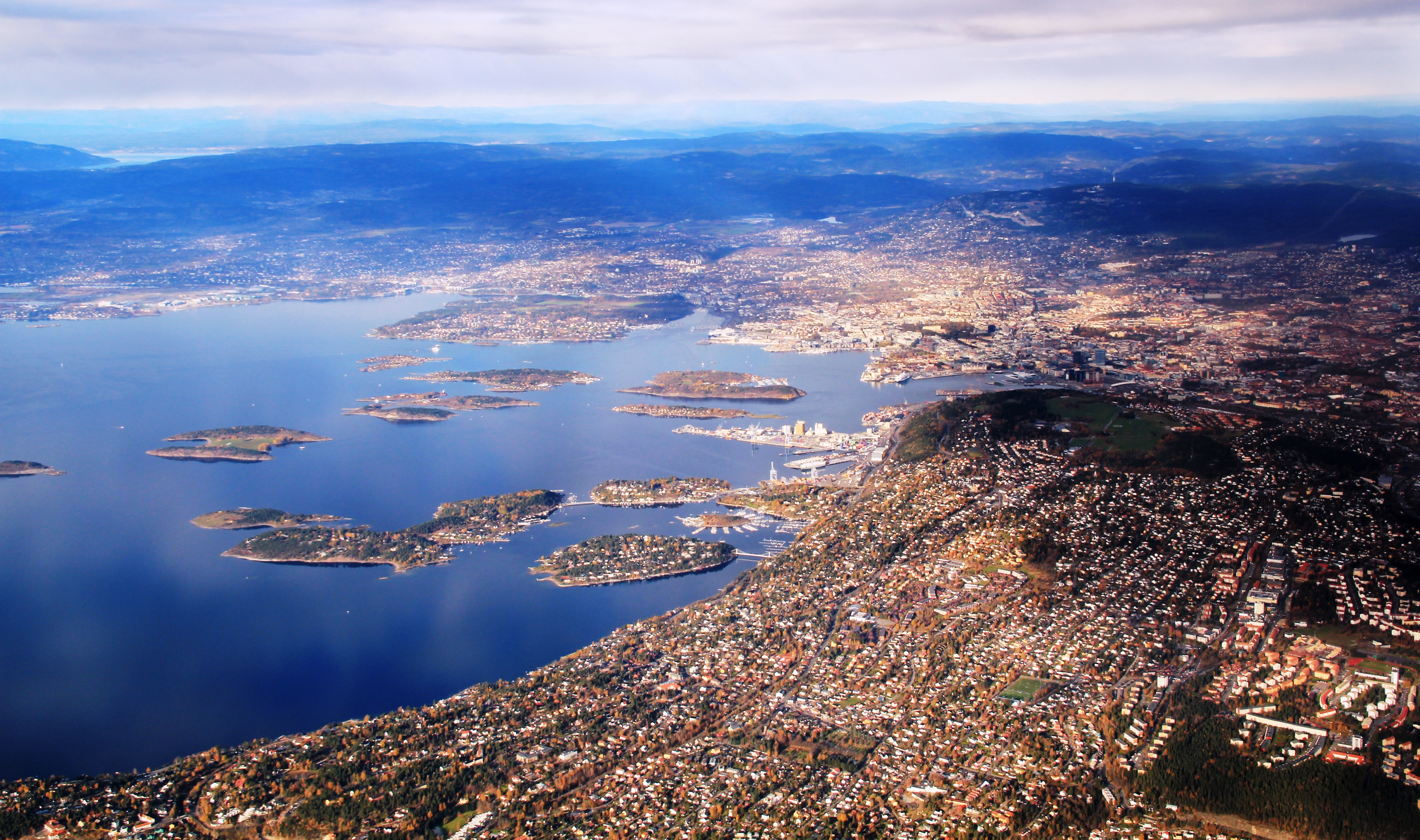 Aerial view of the inner Oslofjord and Oslo, with Nesodden to the left.